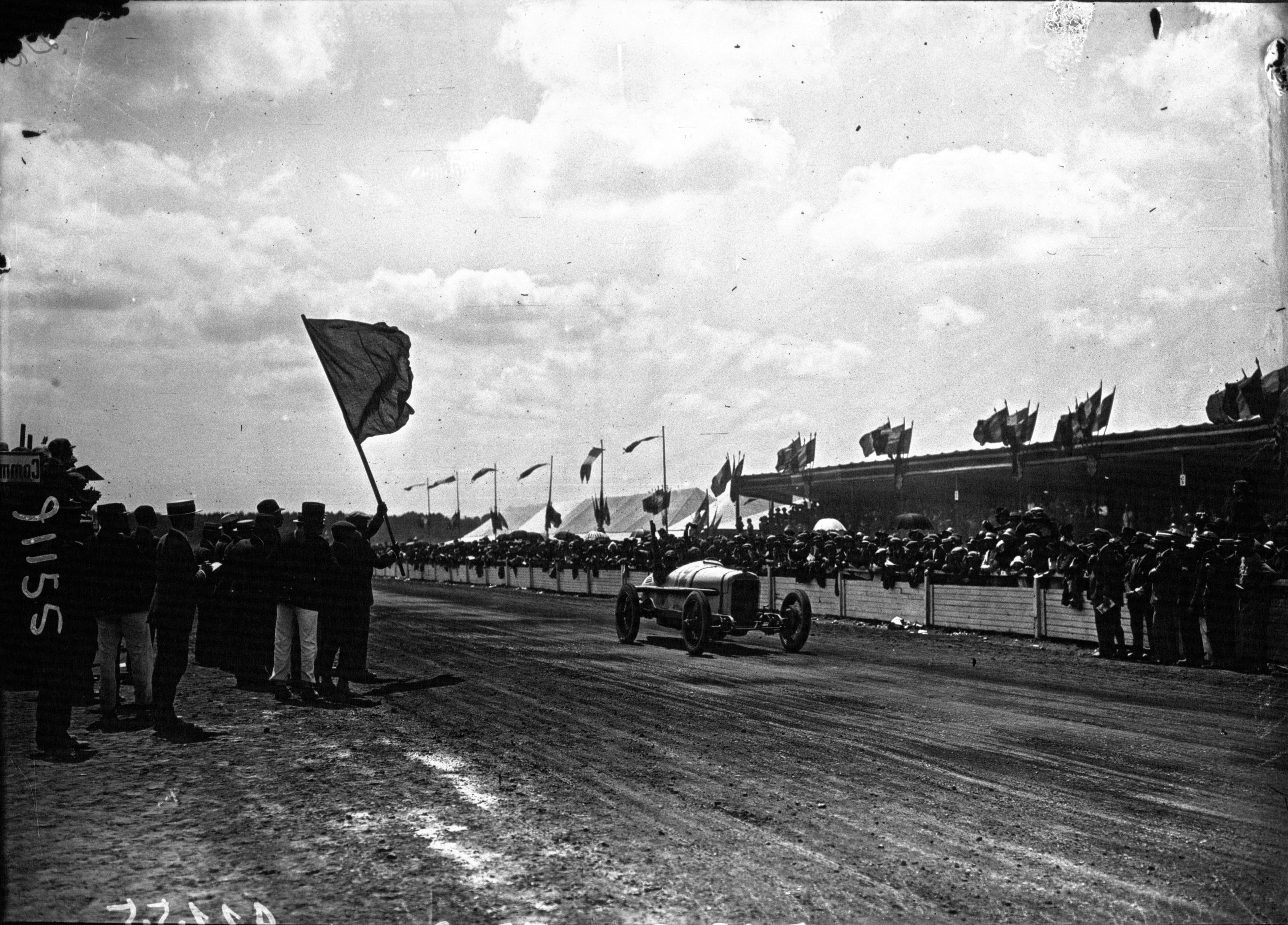 James Anthony Murphy at the 1921 French Grand Prix.